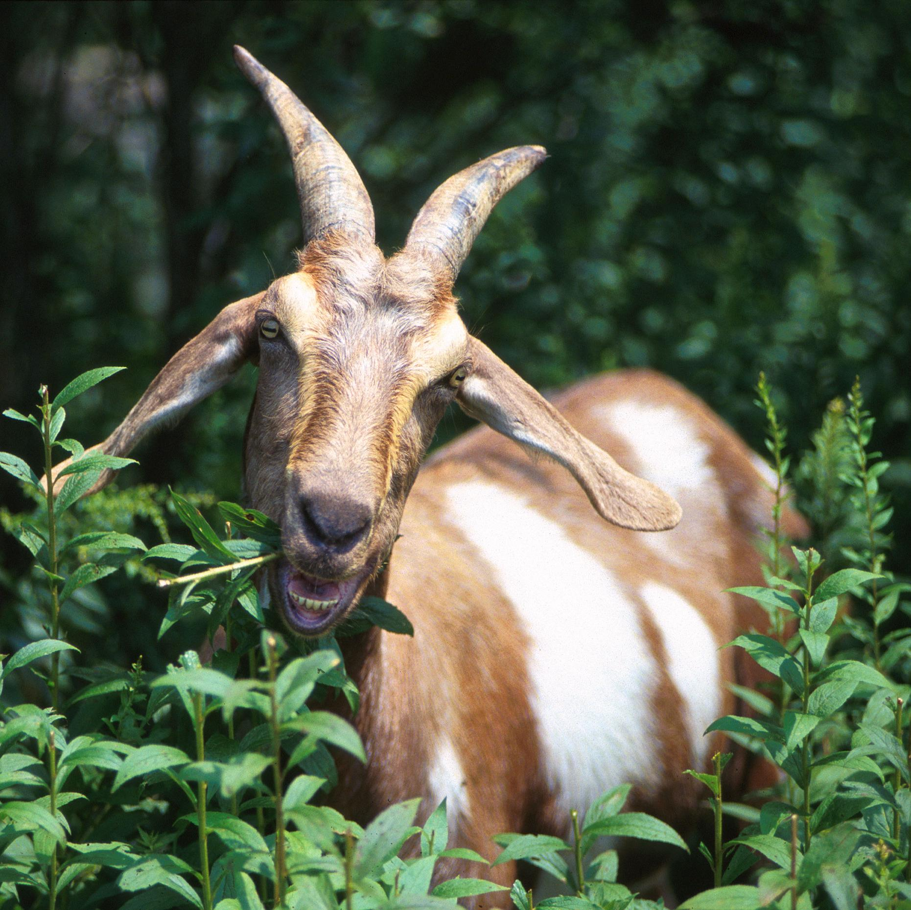 a goat grazing on weeds